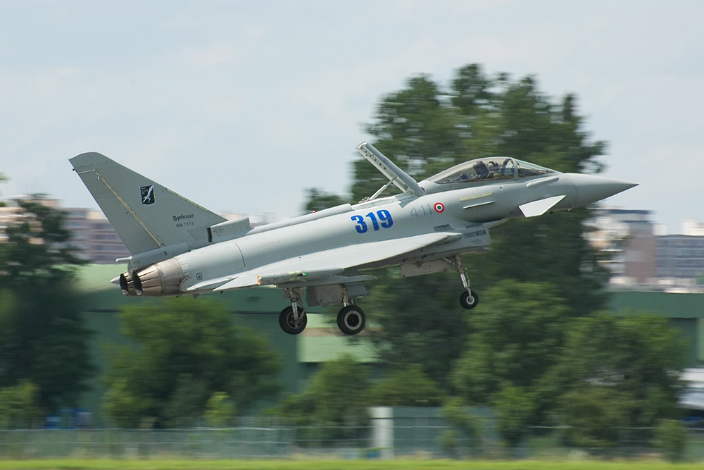 Eurofighter Typhoon landing at Paris Air Show 2007